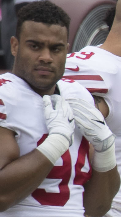 Solomon Thomas during the National Anthem before a game against the Washington Redskins at FedEx Field on October 15, 2017 in Landover, Maryland.